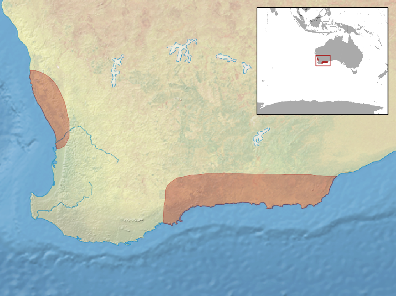 geographic distribution of Ctenotus gemmula